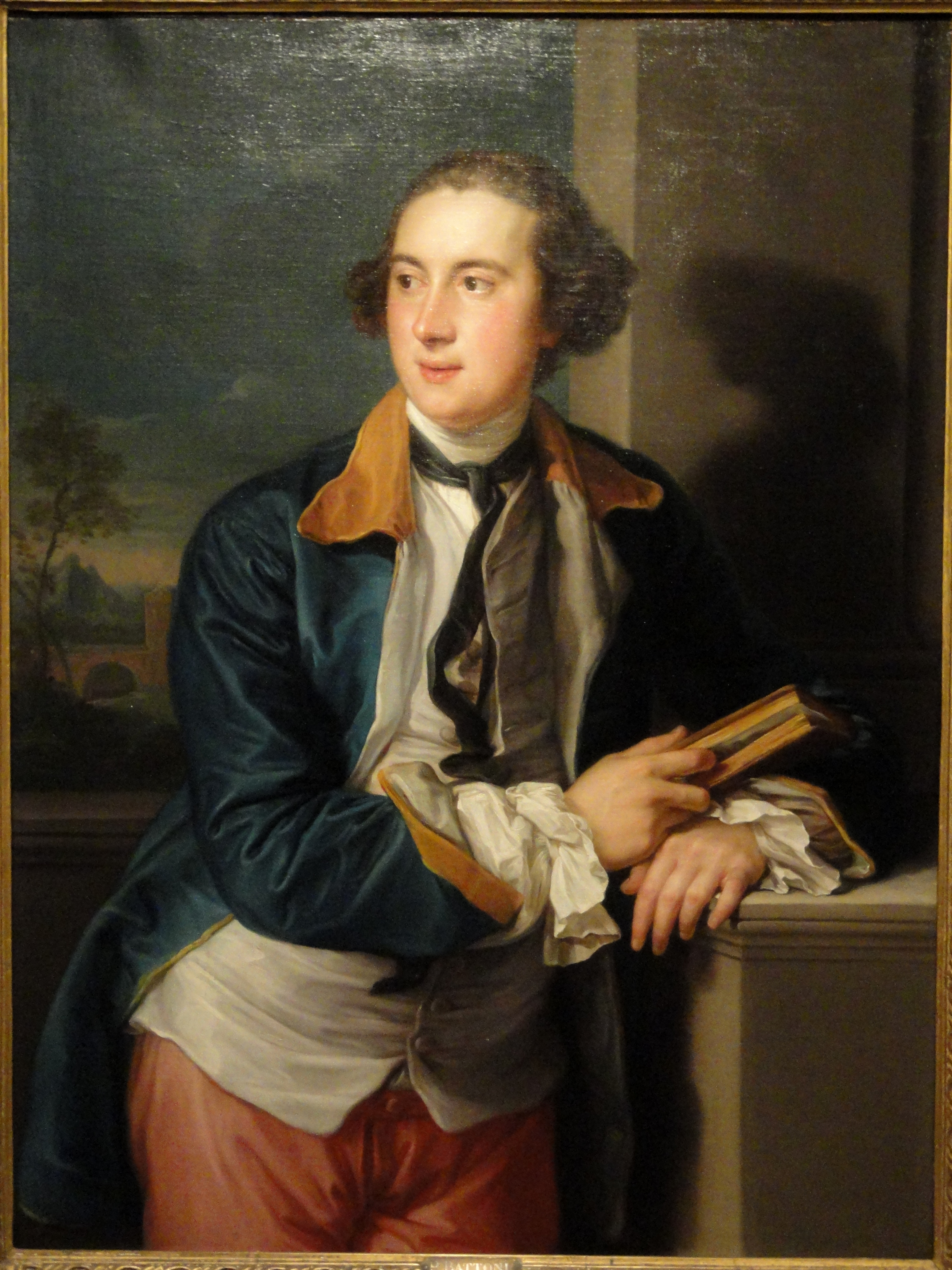 William Legge, Second Earl of Dartmouth